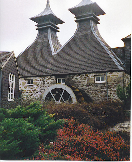 Strathisla Distillery, Keith. Chivas Regal is the major product from this distillery on the Malt Whisky Trail. The site in front of the pagodas and water wheel has been landscaped with heathers.